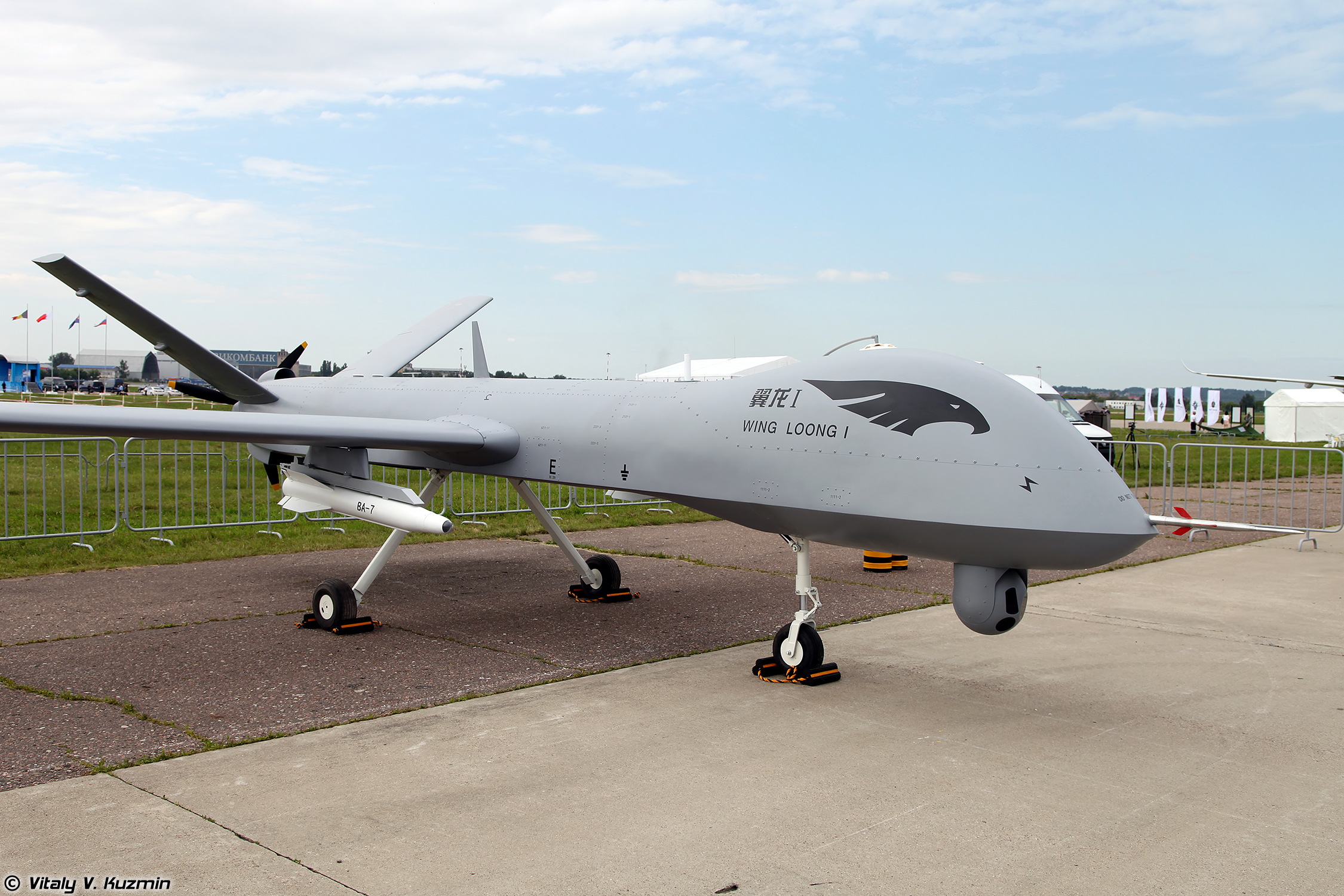 Chinese UAV Wing Loong II - MAKS-2017